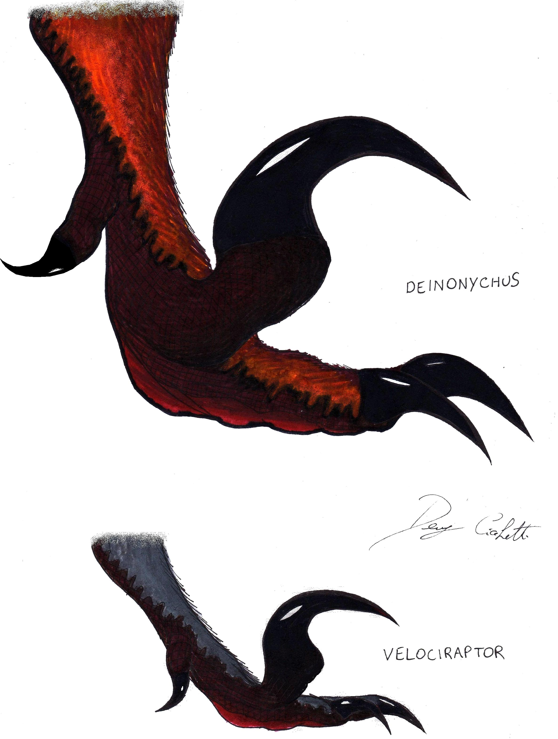 Comparison between Deinonychus and Velociraptor feet